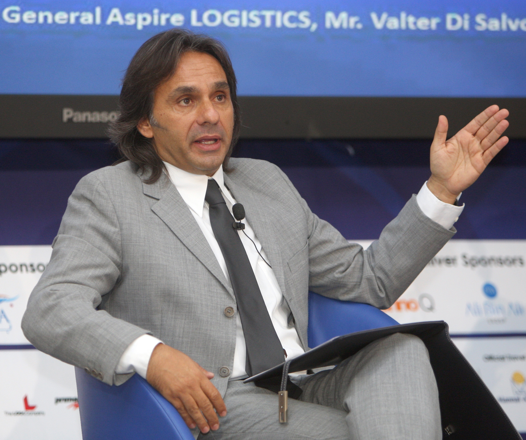 Valter de Salvo leads a session at the Aspire4Sport Congress and Exhibition at the ASPIRE Academy.